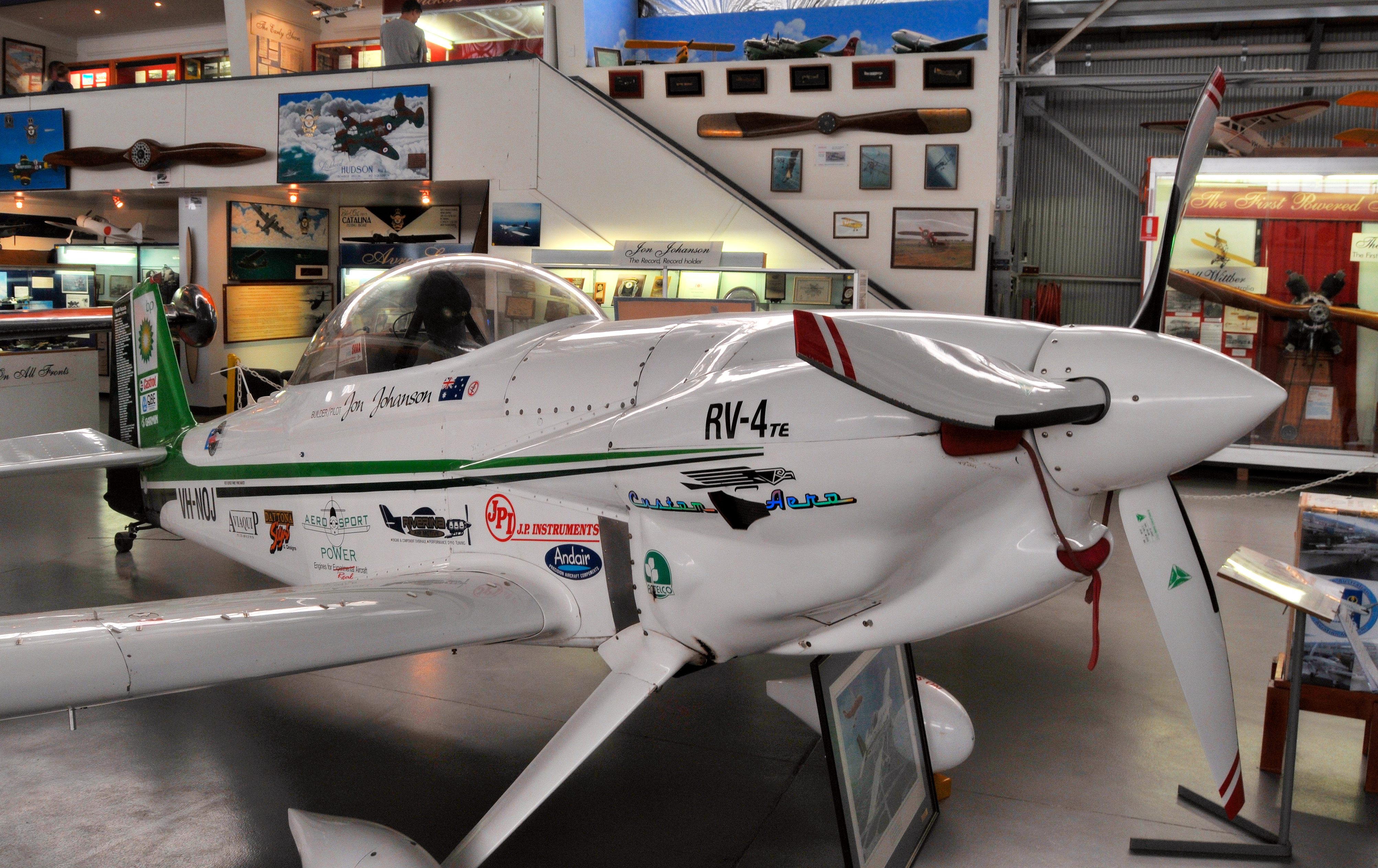 John Johanson's RV-4 at the Port Adelaide Aviation Museum